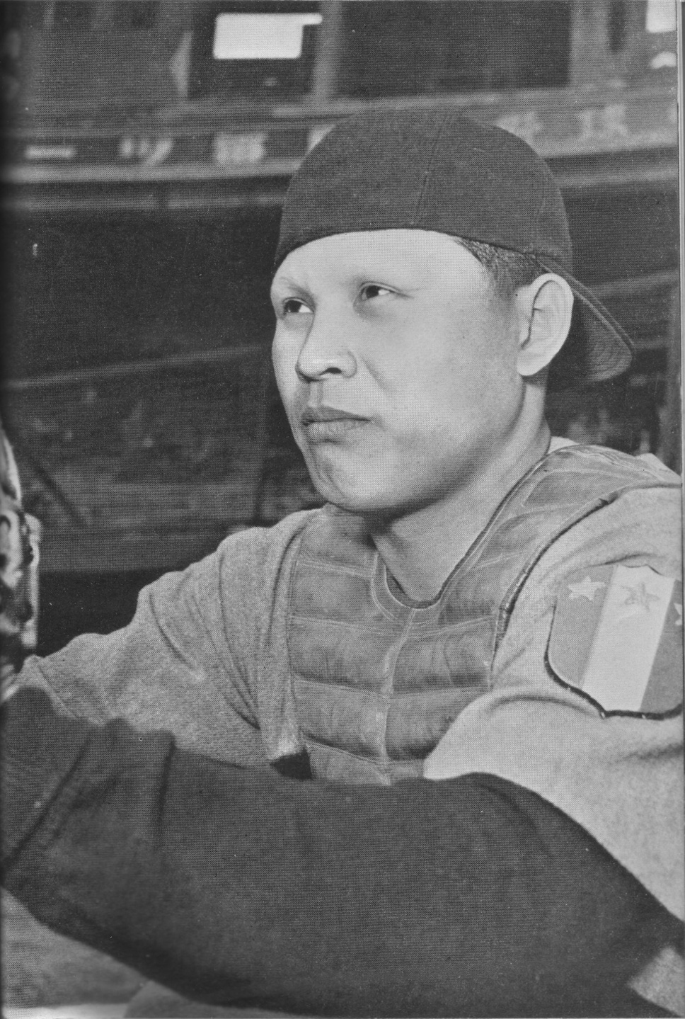 Takeshi Doigaki (Mainichi Orions). taken in 1950.